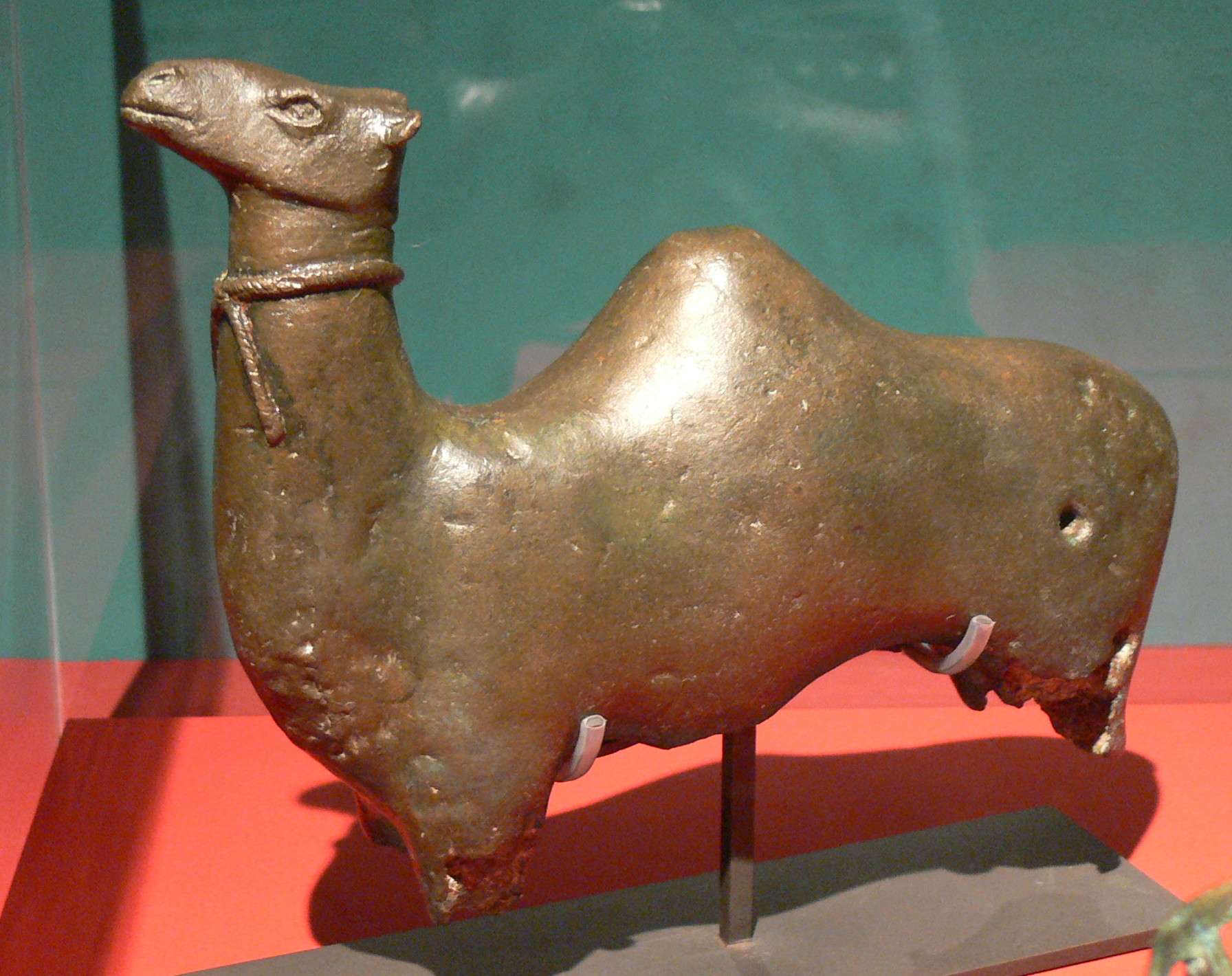 Pergamon Museum ( Berlin ). Exhibition "Roads of Arabia": Statue of a dromedary ( 2nd century BC - 2nd century AD ), Bronze, 17x21 cm, from Qaryat al-Faw ( Department of Archaeology Museum, King Saud University, Riyadh ).